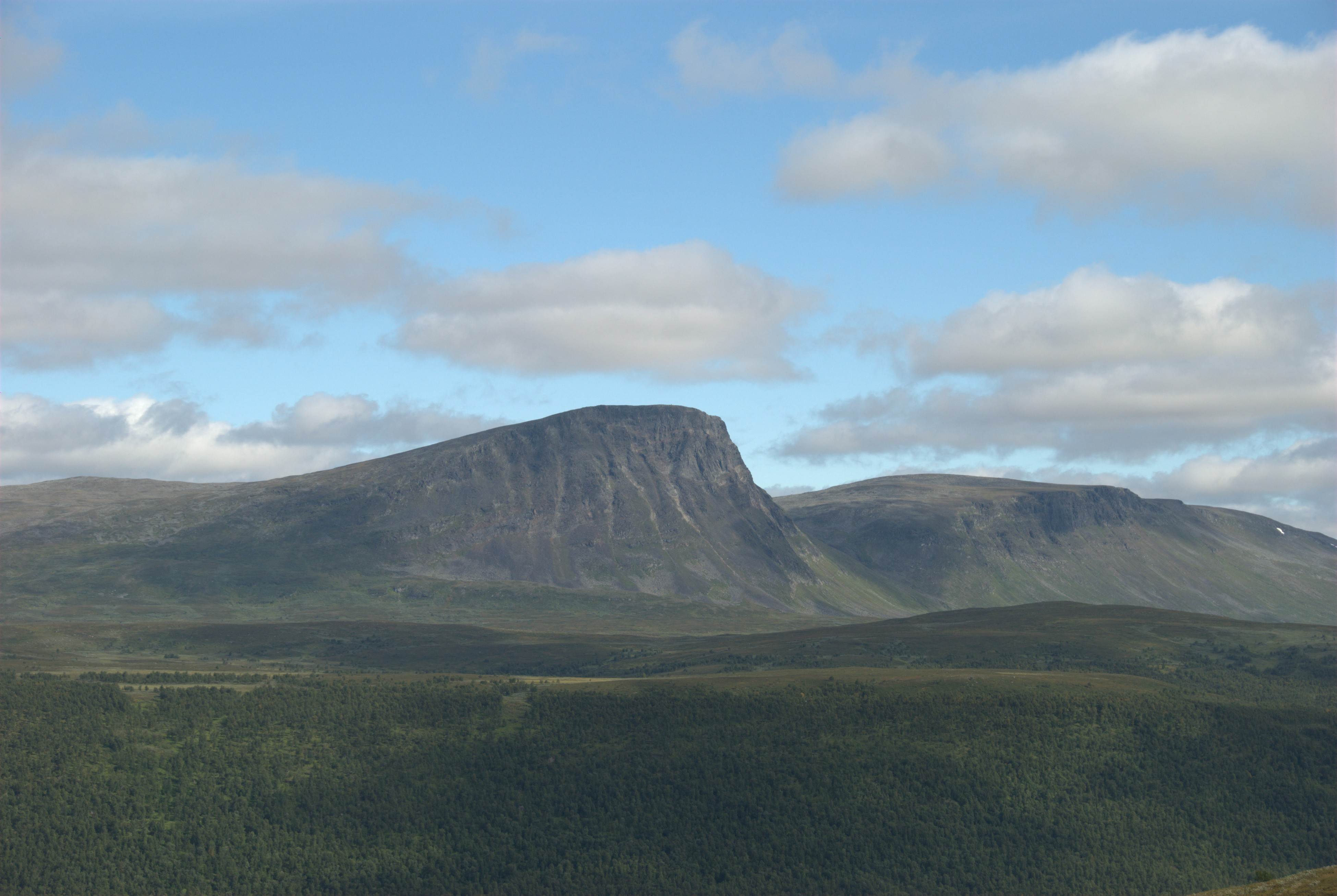 Landscape of Vindelfjällen from the Kungsleden trail between Serve and Aiger. The summit in front is probably Suvlåjvvie.